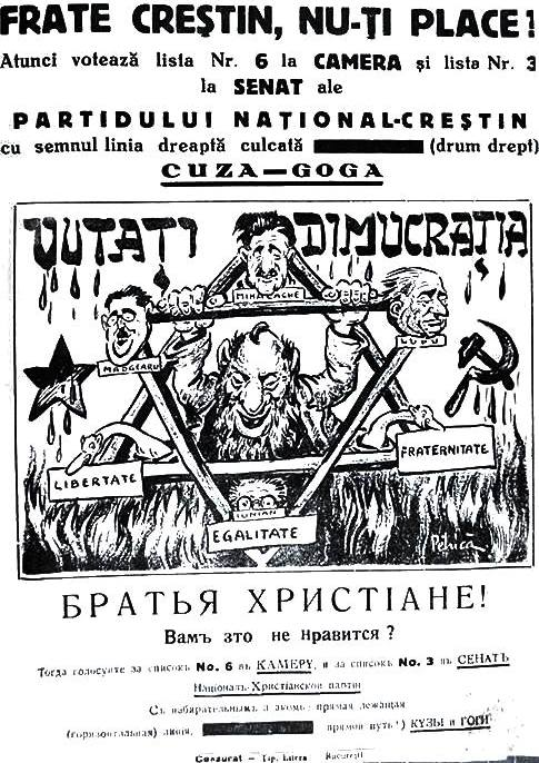 Electoral poster of Romania's far-right National-Christian Party, attacking the governing National Peasants' Party with antisemitic and anticommunist themes.A wheel-like Seal of David, spun by a stereotypical and sinister Jew. The Seal is festooned with the heads of National Peasantist left-wing deputies; clockwise, from top: Ion Mihalache, Nicolae Lupu, Grigore Iunian, Virgil Madgearu. At the bottom, the French radical slogan Liberty, Equality, Fraternity, held up by geese—stereotypical Jewish poultry. To either side, the bloodied (red) star and hammer-and-sickle, symbols of communism. The mock-slogan, in Romanian but with imitation-Hebrew serif, reads: Vutați dimucrația ("Vote for Democracy", mispronounced with a Hebrew accent).The text, in both Romanian and Russian (presumably addressed at Bessarabian or Bukovinan constituents), asks: "Is this not to you liking, brother Christian? Then vote for the National-Christian Party Chamber list No. 6 and Senate list No. 3, under the symbol of the horizontal line ▬ (the straight road)."